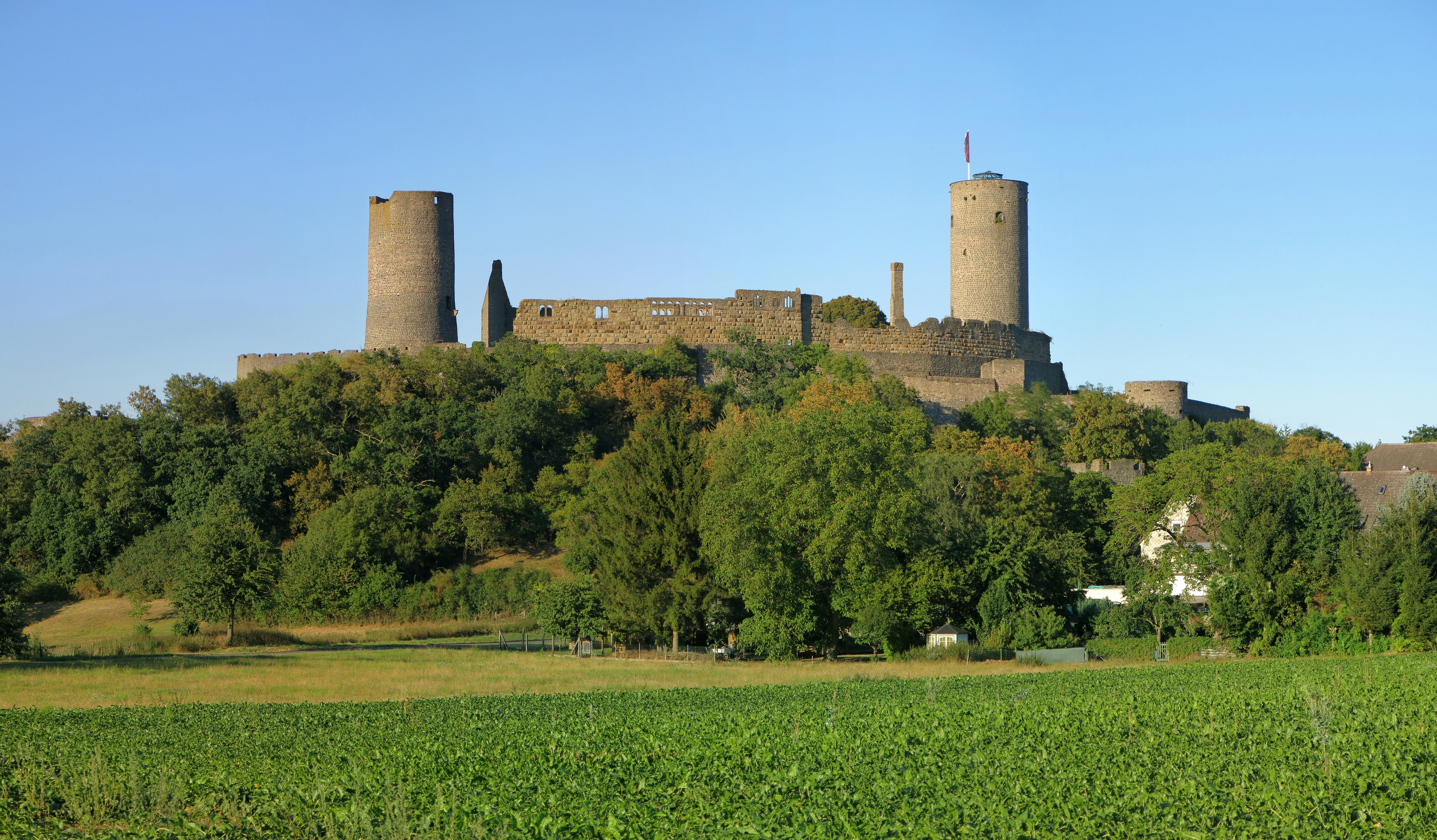 Münzenberg Castle, seen from southwest